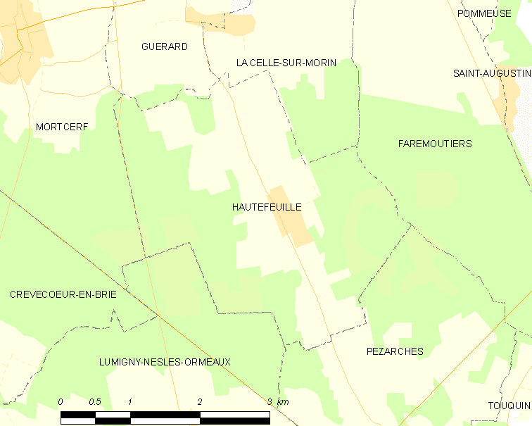 Map of French municipality Hautefeuille